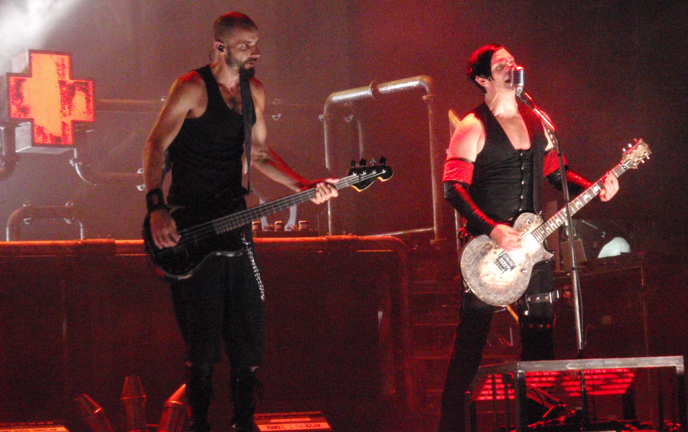 Oliver Riedel and Richard Zven Kruspe at BBK Live 2010 (Bilbao, Spain)